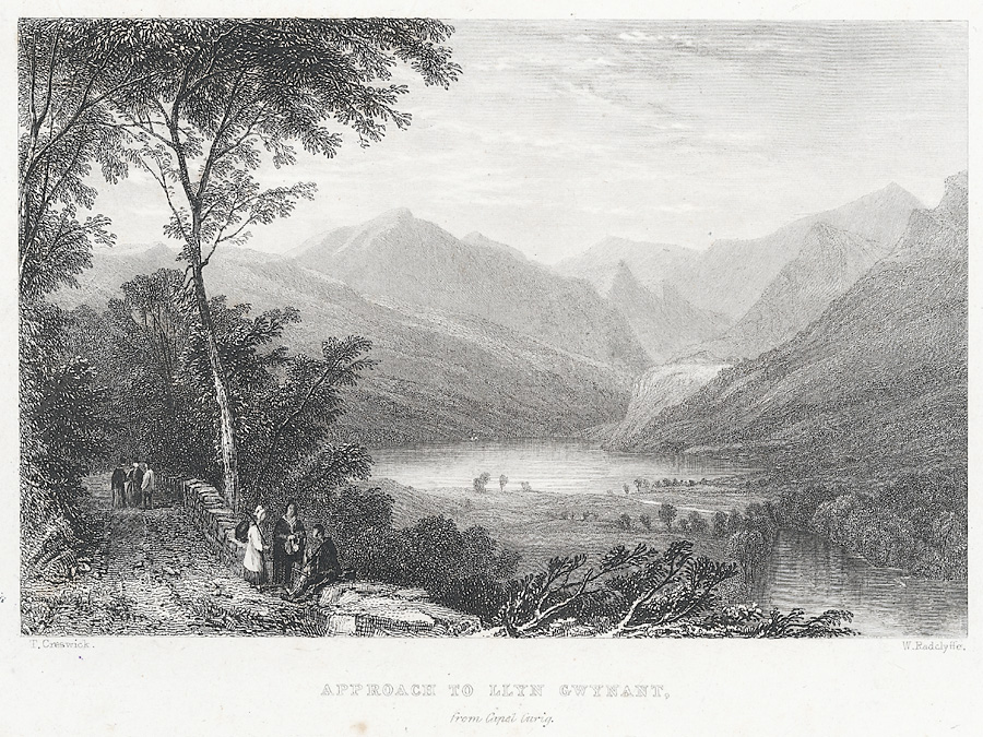 A view of Llyn Gwynant with mountains in the background. People are standing on the road to the lake in the foreground.